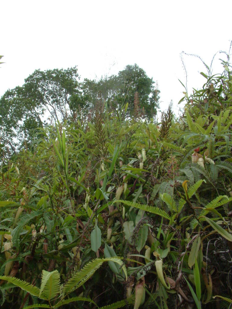 Female plants of Nepenthes maxima from Sulawesi (700 m altitude)